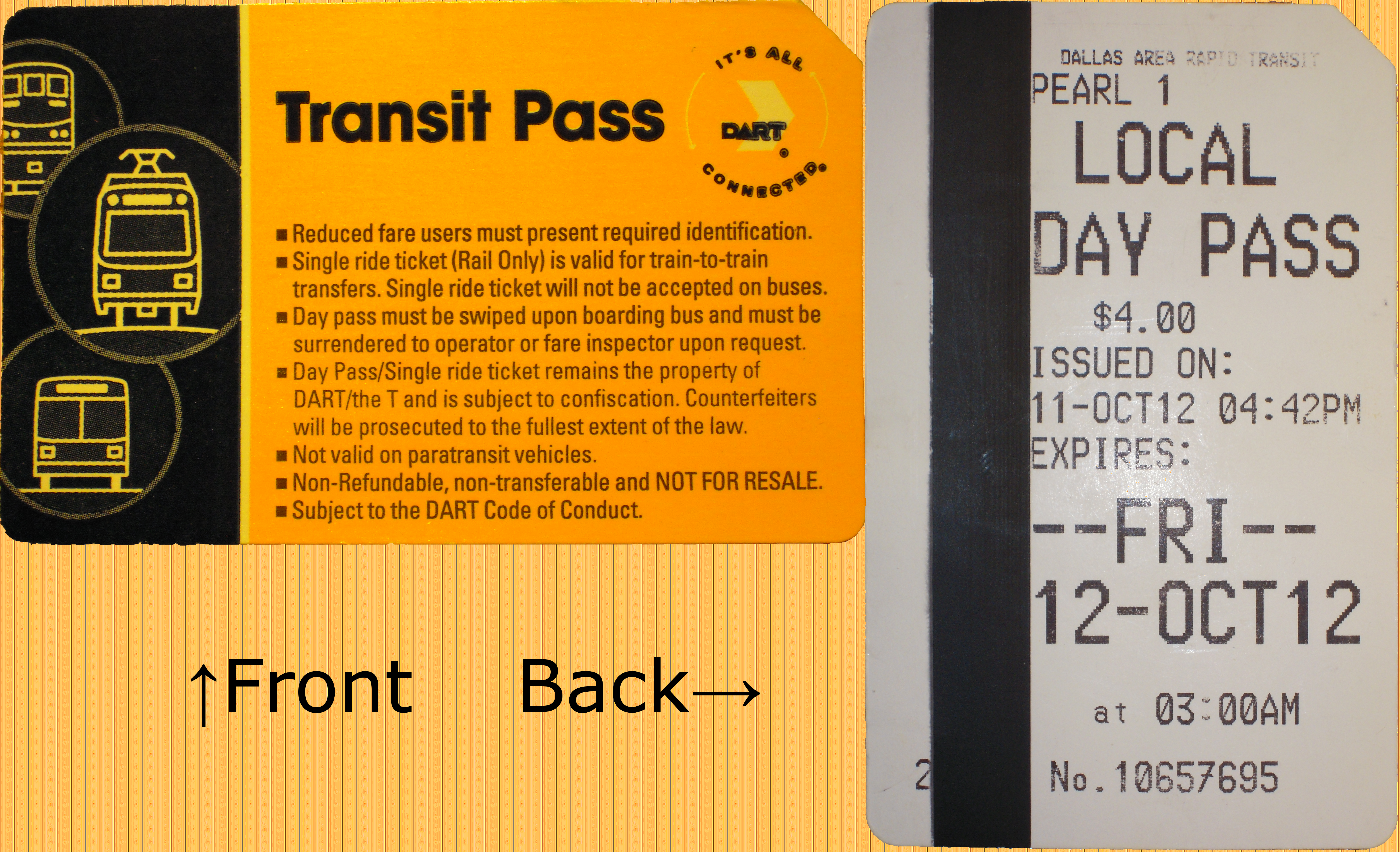 DART Transit Pass